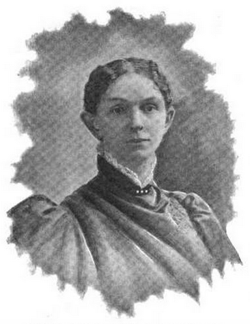 Mary Traffarn Whitney, from an 1892 publication.